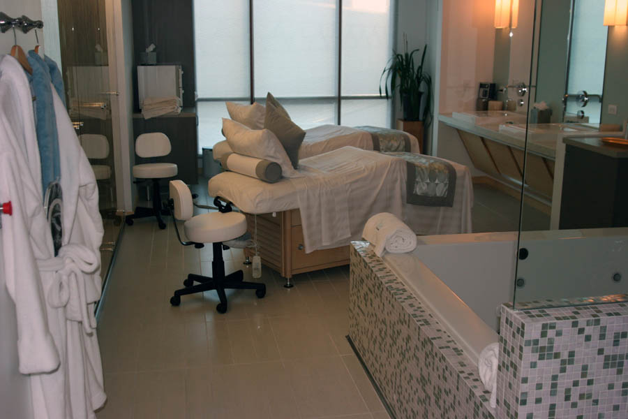 Spa Pechanga couples room